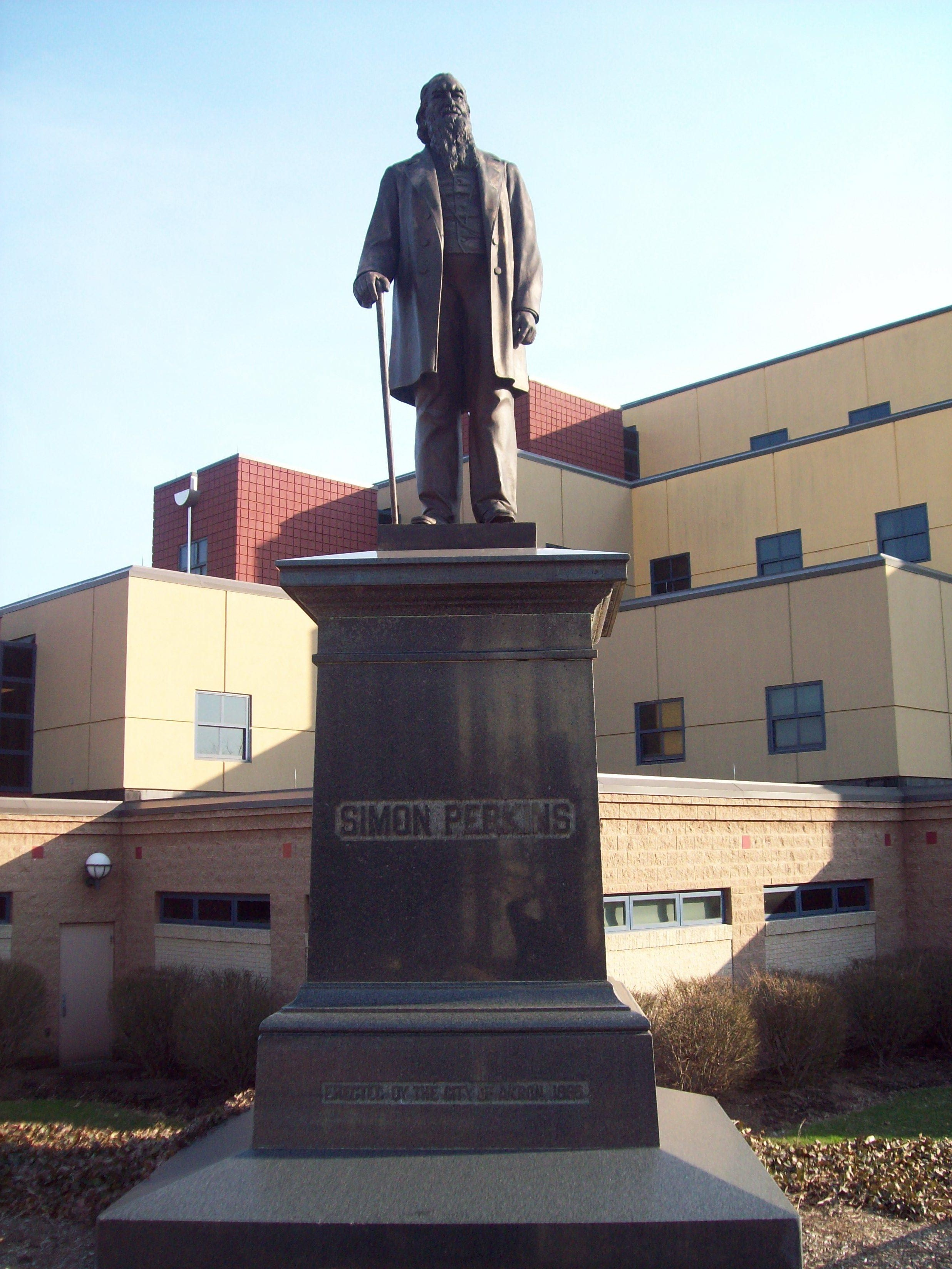 Col. Simon Perkins, Jr. statue in Downtown Akron. Col. Perkins was the son of Gen. Simon Perkins and ran the family affairs in Akron.